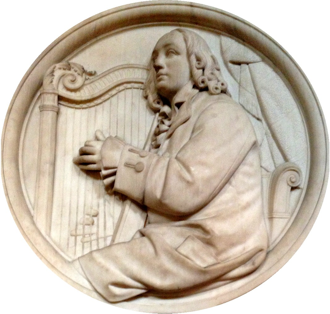 St Patrick's Cathedral Dublin, Ireland ; This image highlights the centre of the memorial to the blind harper and composer Carolan